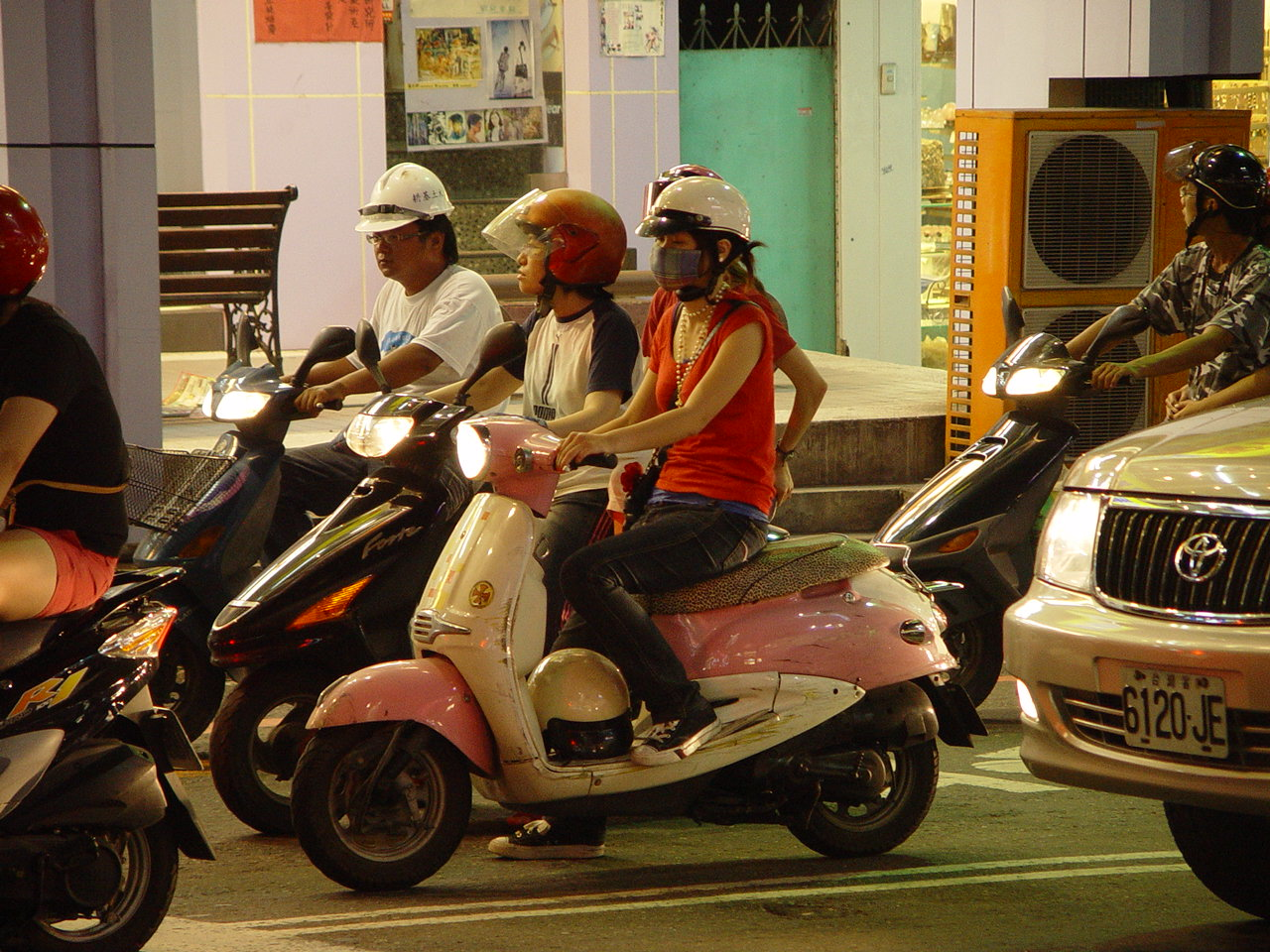 Pink Motorcycles and bikes are popular amongst women. They're so adorable but aren't any less powerful than their masculine counterparts.